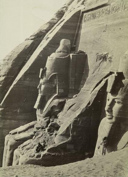 Abu Simbel, in Egypt. Photo from c. 1862 by Francis Frith, albumen print, 21.5 x 16 cm.